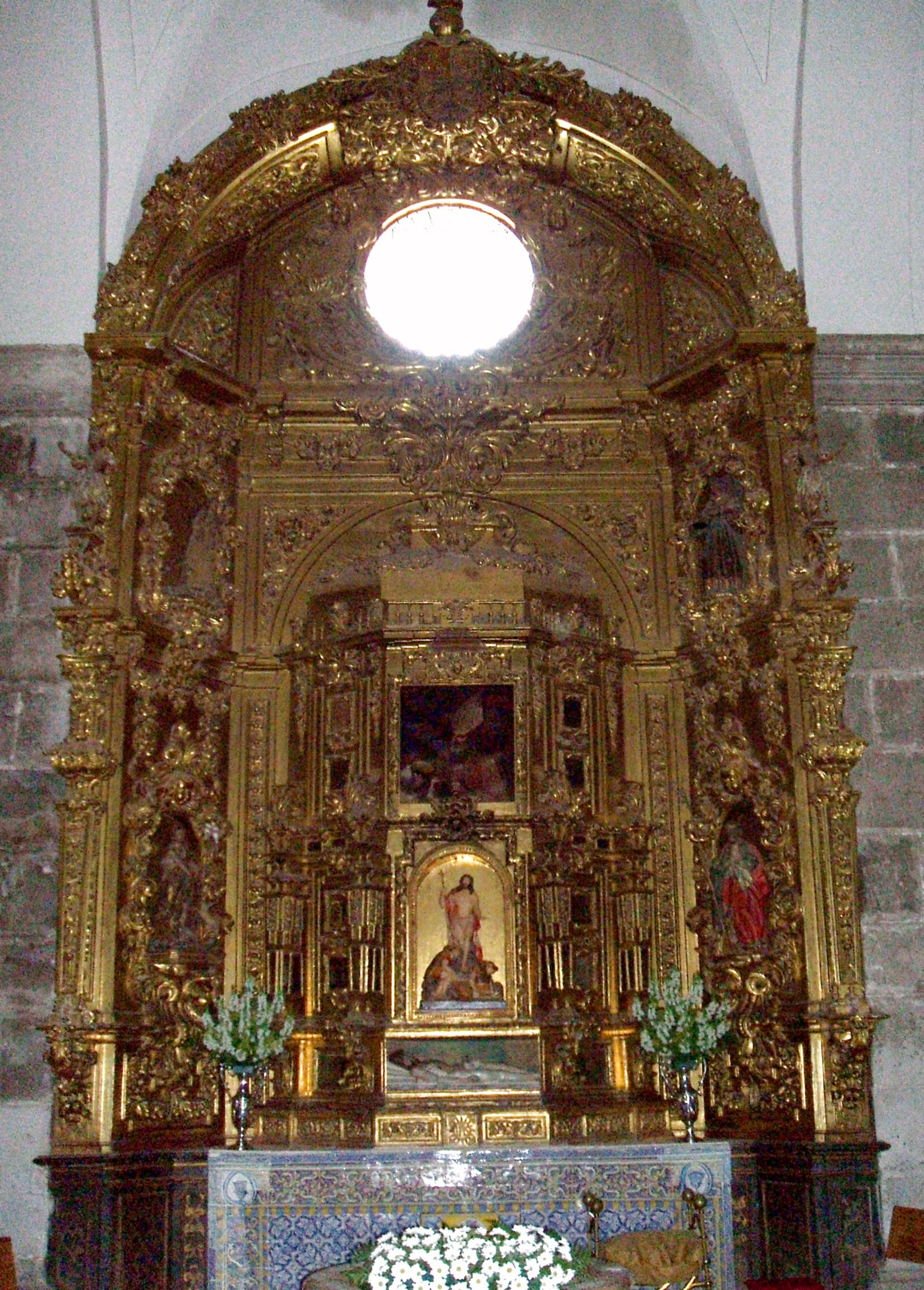 Retablo de la Capilla de N. S. de los Dolores, Catedral de Valladolid (España)